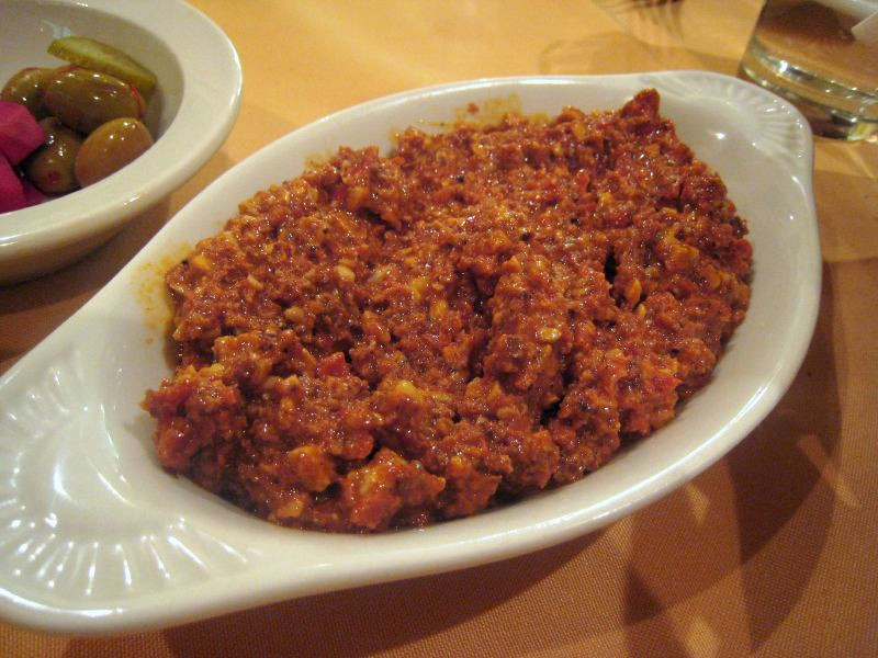 Get the full scoop